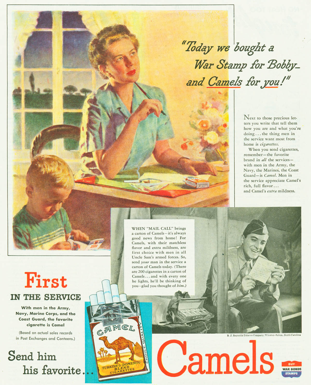 WWII-era cigarette ad. A woman sitting at a desk smoking writes a letter; beside her, a small boy pastes a war stamp into a booklet. Inset, a black-and-white image of a grinning young man in uniform sitting on a bed in a tent smoking and reading a letter; next to him, an opened paper-wrapped package that apparently just contained a carton of cigarettes and the letter. Inset upon the inset, a picture of an open cigarette pack. In the bottom right corner, an icon-like ad saying "BUY WAR BONDS STAMPS" on a red-white-and-blue shield. Text (shortened to avoid repeating the "favorite in the service" claim thrice)"Today we bought a War Stamp for Bobby -- and Camels for you!" Next to those precious letters you write that tell them how you are and what you're doing... the thing men in the service want most from home is cigarettes. When you send cigarettes, remember, the favorite brand in all the services -- with men in the Army, the Navy, the Marines, the Coast Guard -- is Camel. ...elipsis in transcription... WHEN "MAIL CALL" brings a carton of 'Camels -- it's always good news from home! ...elipsis in transcription... (There are 200 cigarettes in a carton of Camels... and with every one he lights, he'll be thinking of you... glad you thought of him) ...elipsis in transcription... Send him his favorite... Camels